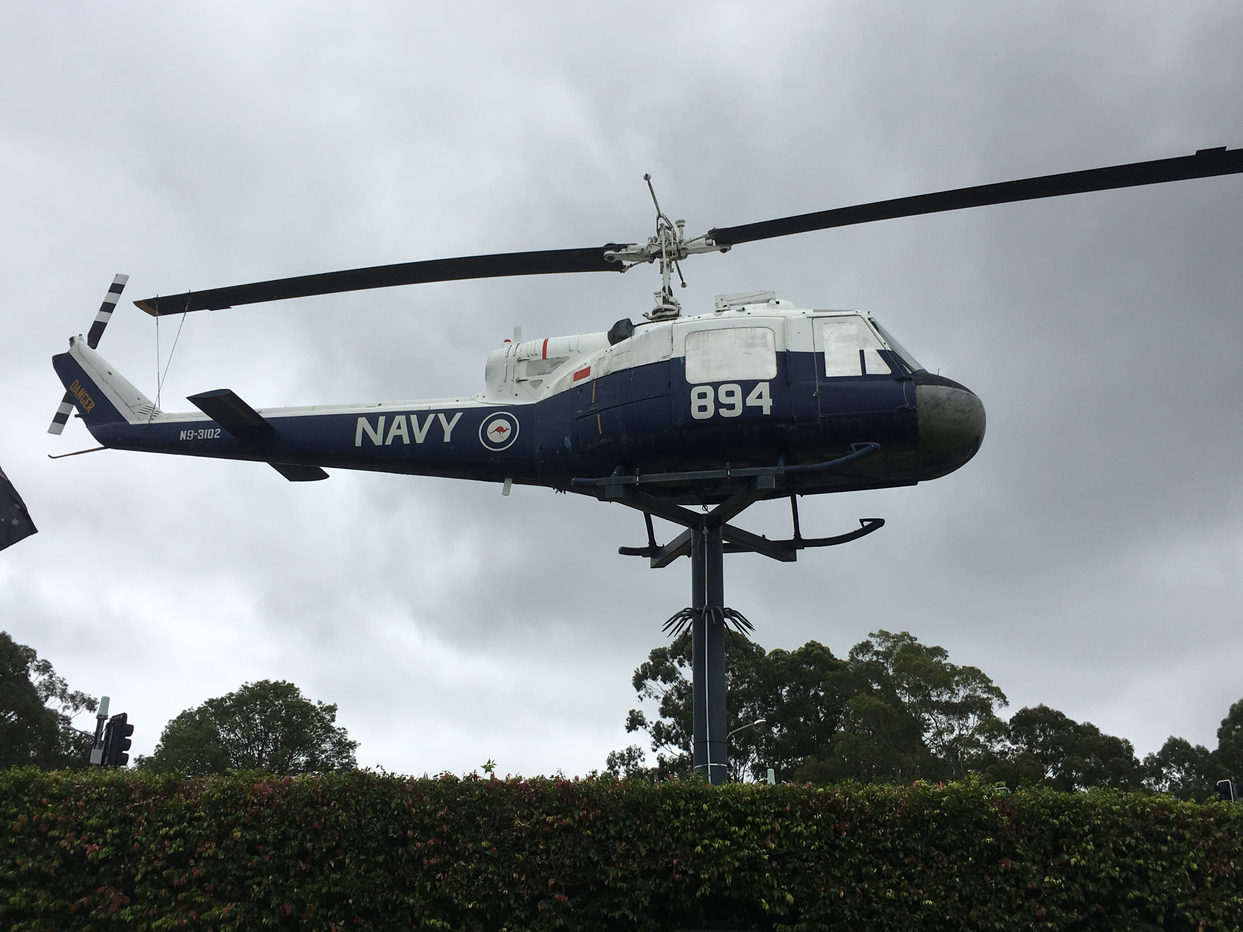 a UH-1B pole mounted in nowra